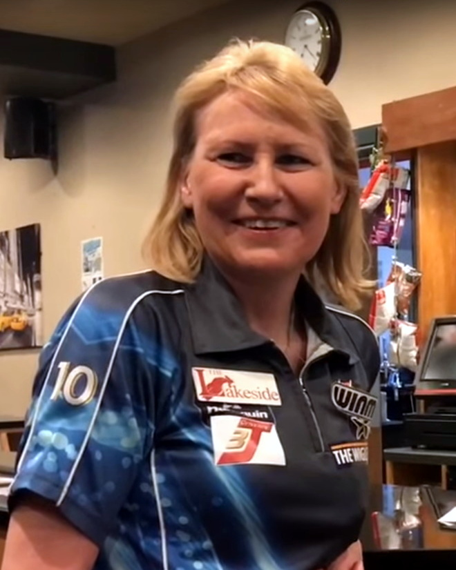 MY UNFORGETTABLE INTERVIEW WITH TRINA GULLIVER | MBE & 10 x WORLD CHAMPION I was so lucky to get the amazing opportunity to interview 10 x World Champion & MBE Trina Gulliver. I got to ask Trina lots of questions an find out more about the ladies darts, what it’s like on the road & lots more, I hope you all enjoy this video, it was an interview I will never forget. Check out my website at